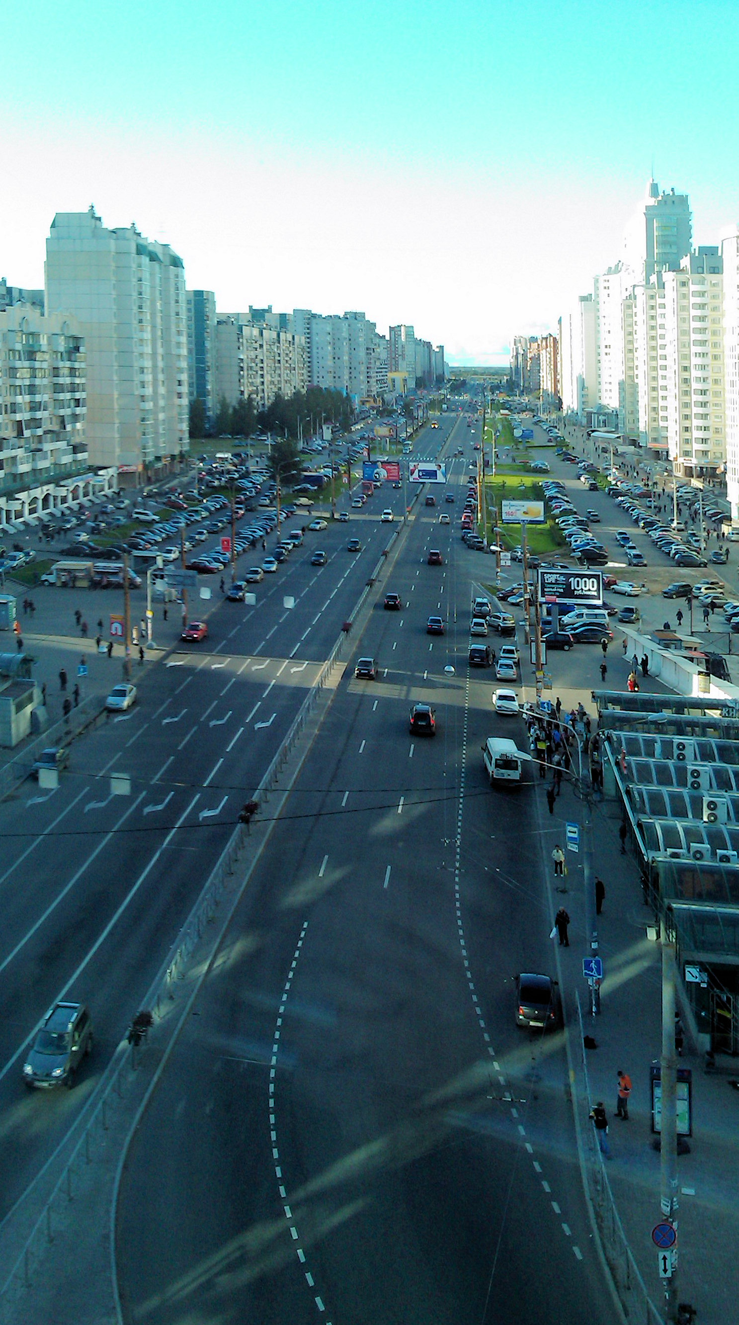 View from the upper floor of the TRK Atmosphere to Komendantsky prospect